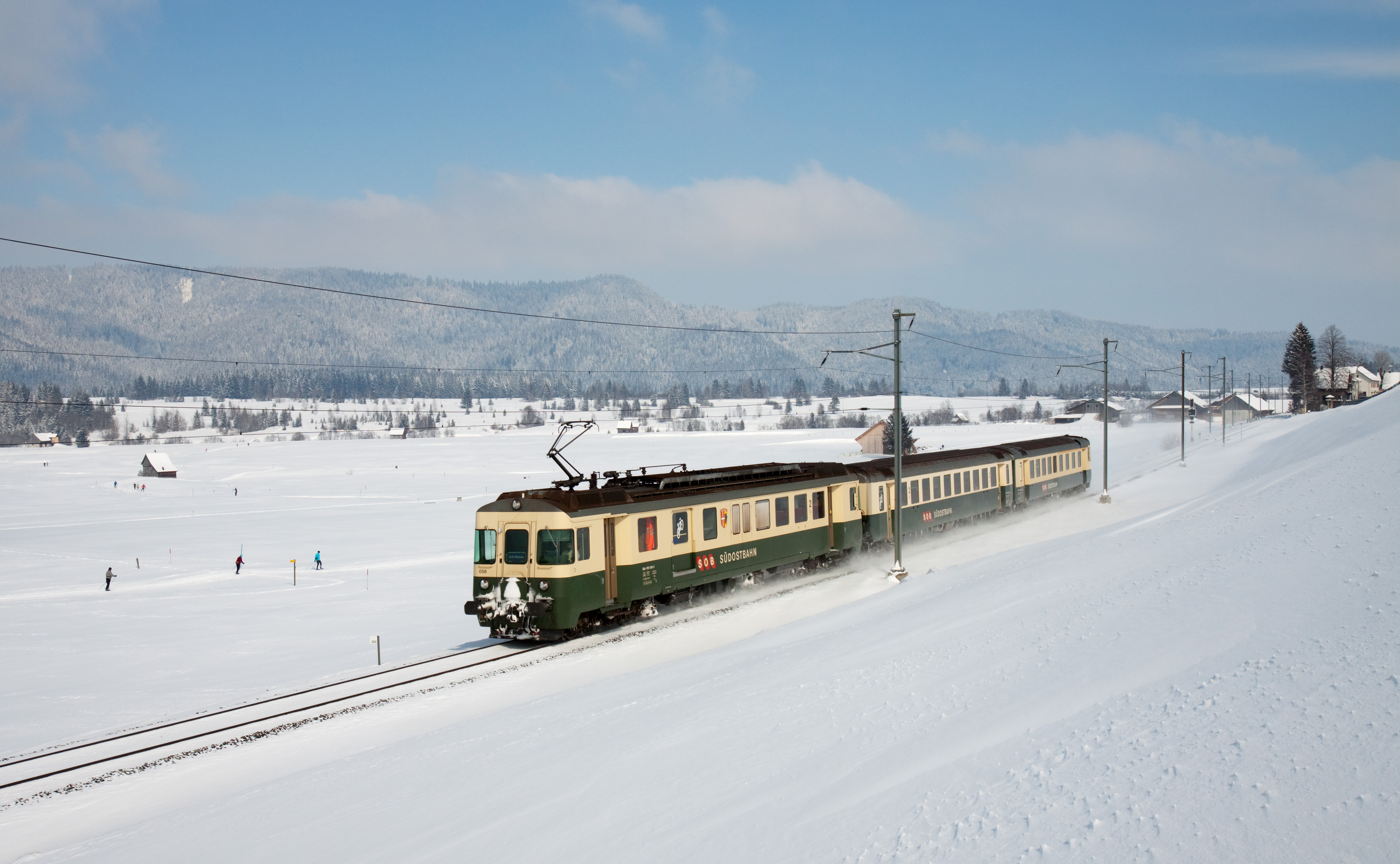 Südostbahn BDe 4/4 multiple unit with a push-pull train from Biberbrugg to Arth-Goldau, just after Altmatt. This particular multiple unit was delivered in 1979 and remained in use until 2010. This class delivers an amazing 2100 kw (2860 hp)! In this section, the line is alongside the raised bog of Rothenthurm, which is popular for cross-country skiing during winter.